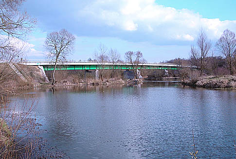 bridgw warka